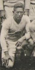 Anonymous - Postcard out of print - Phototypie Labouche frères, Toulouse (France) - printer closed since 1960.